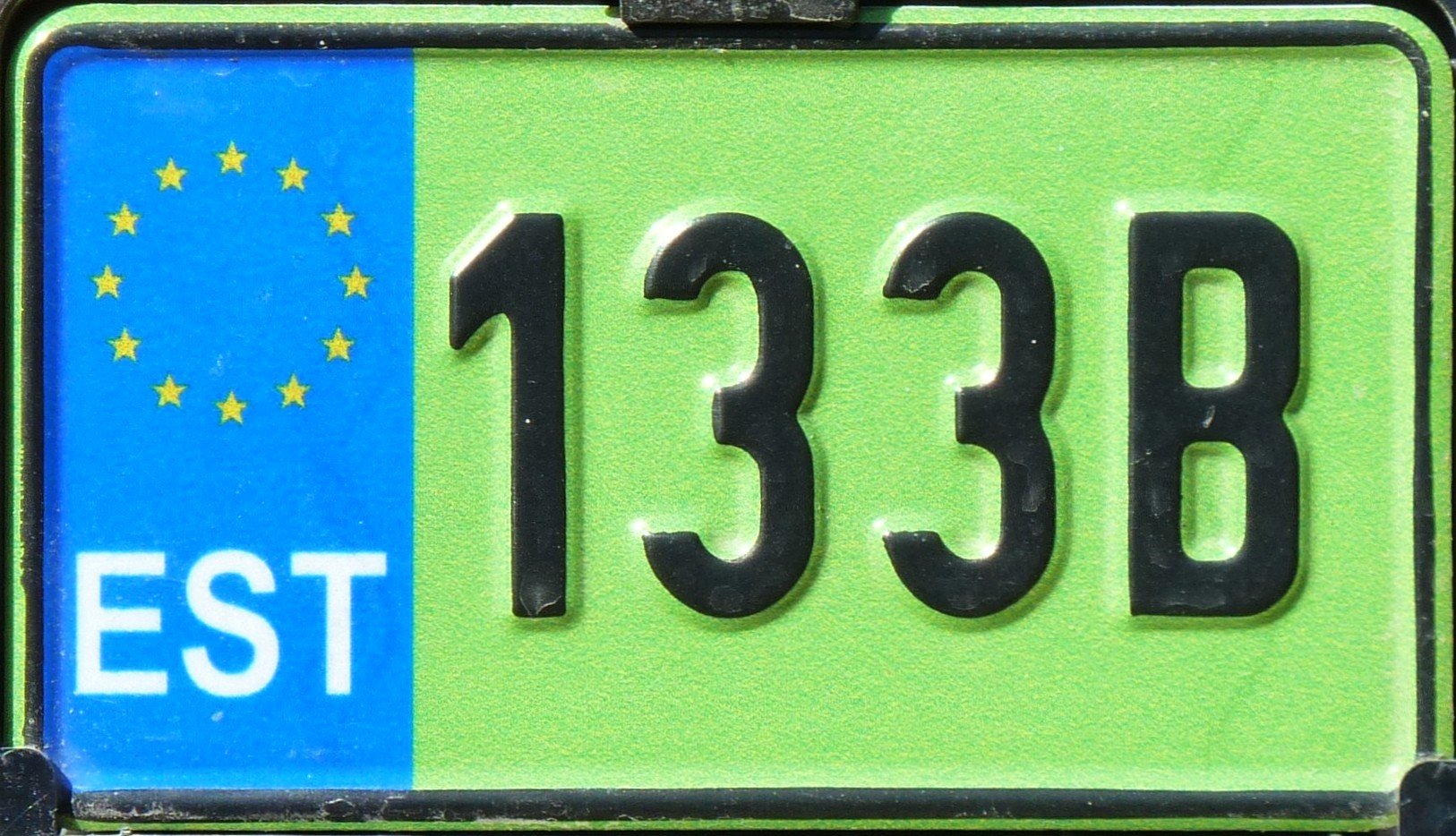 Estonian license plate for mopeds since 2011